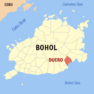 Map of Bohol showing the location of Duero